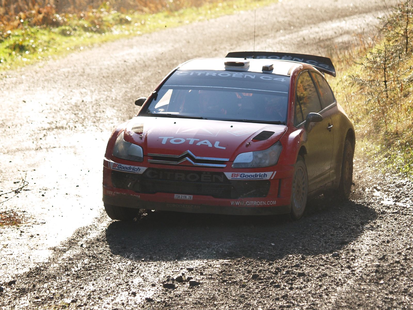 Dani Sordo driving his Citroën C4 WRC during 2007 Wales Rally GB.